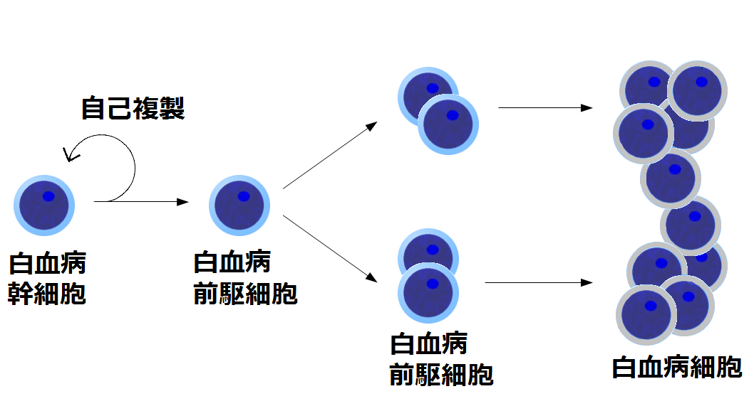 Diagram of leukemia cell differentiation